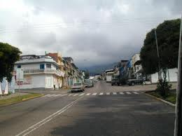 avenida